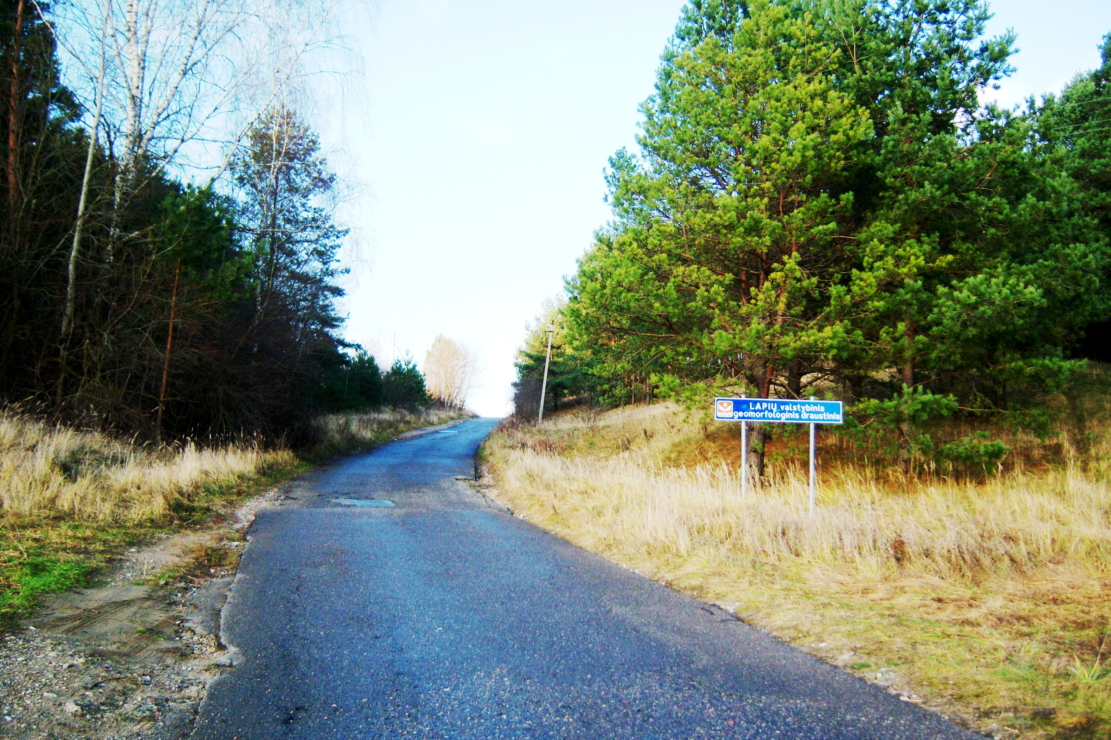 Lapių geomorphologic reserve, near Lepšiškiai, Kaunas district, Lithuania